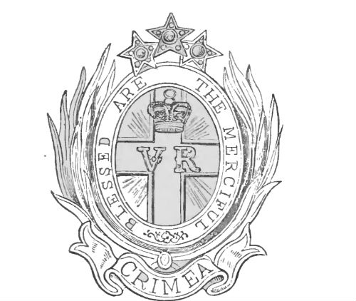 This is an image of the medal Florence Nightingale received from Queen Victoria for her services in Nursing and care. It is also displayed on page 1 and 28 in Notes on Nursing: What It Is, and What It Is Not by Florence Nightingale.